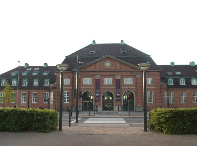 The old railroad station in Odense